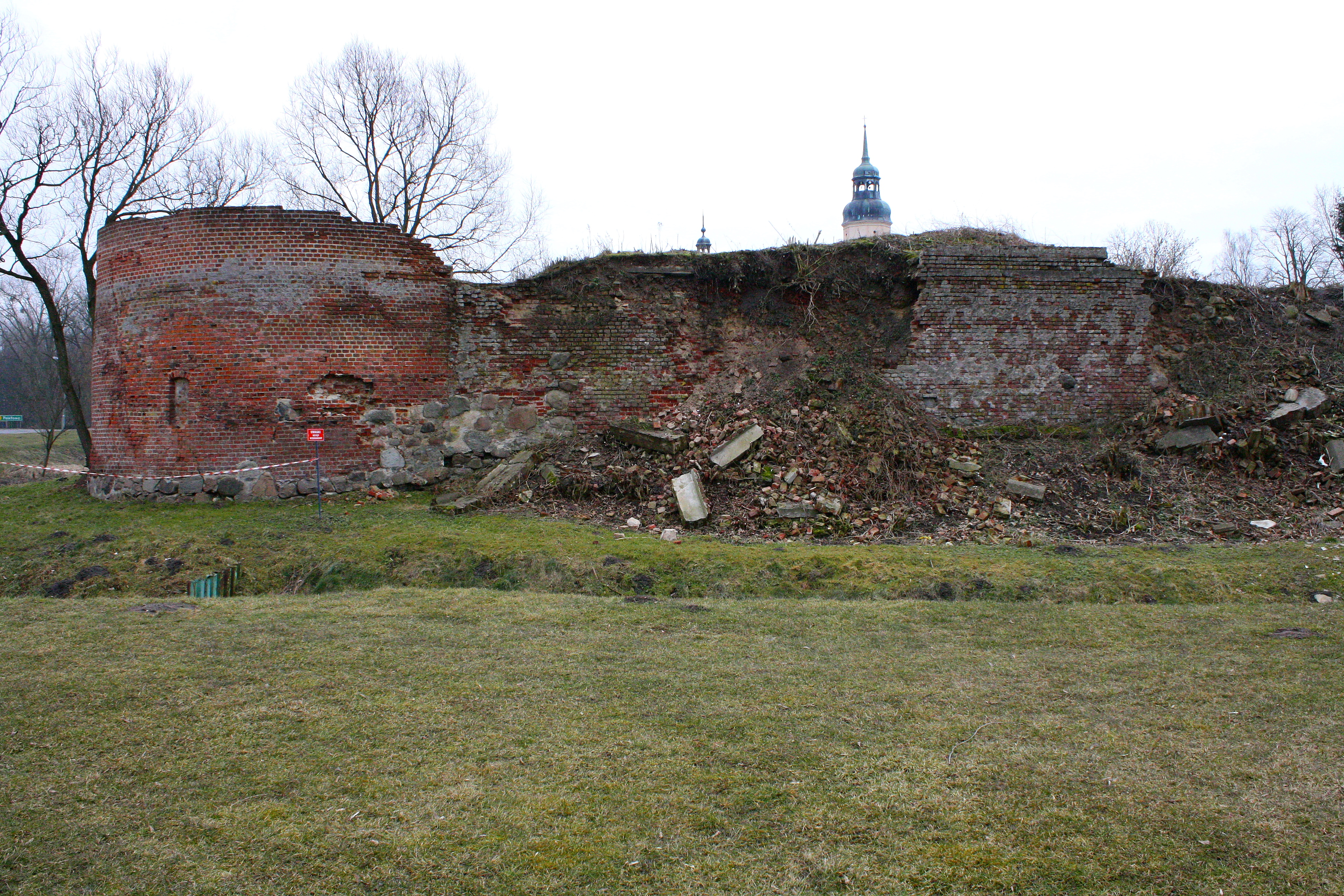 Ruins of Castles, Lubawa, Poland (2009)